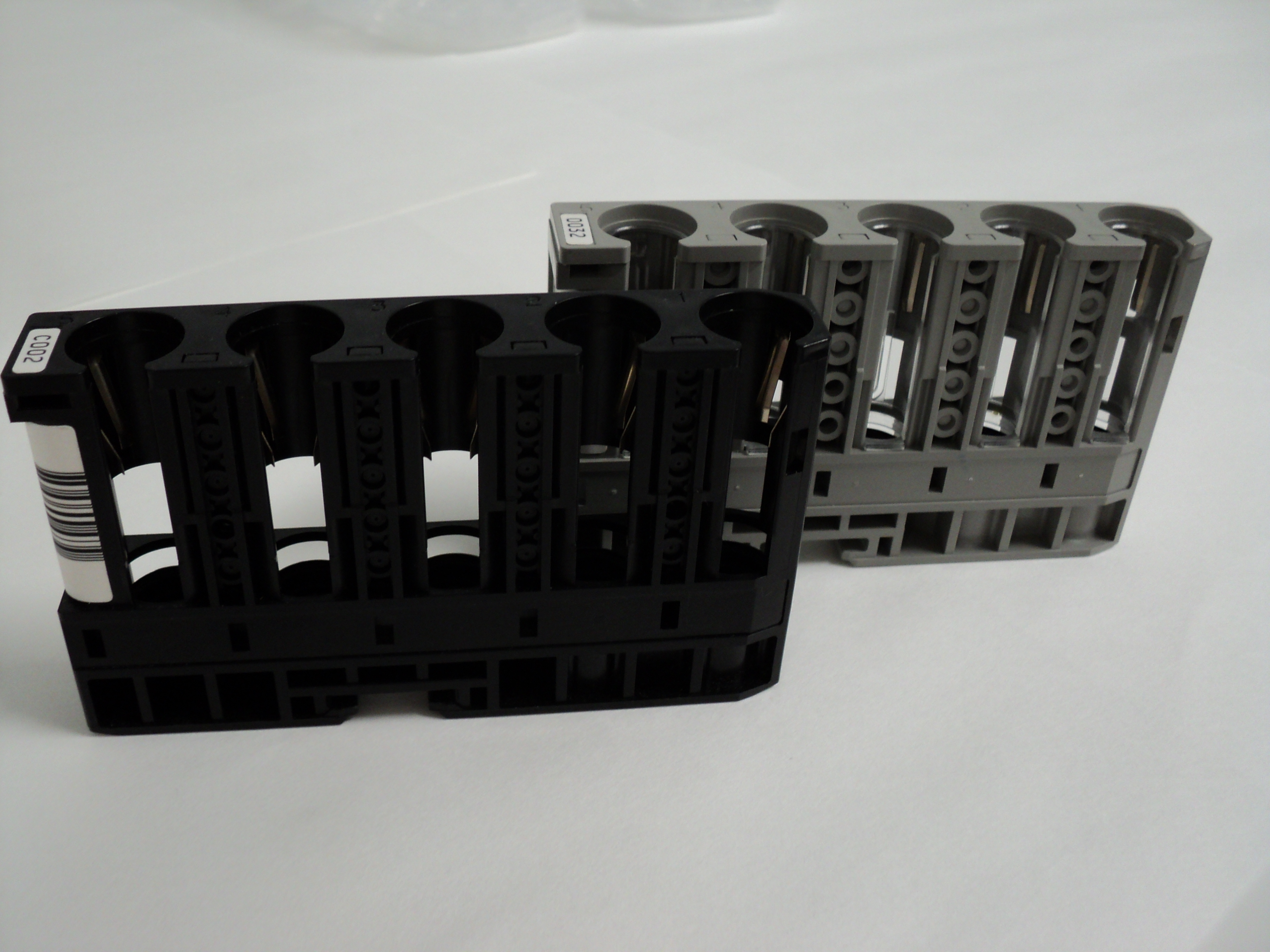 Rack for working with automated analyzer (cobas 6000). The tubes are placed on the hollow positions. Different colors indicate different uses (as calibrations, quality controls and so)